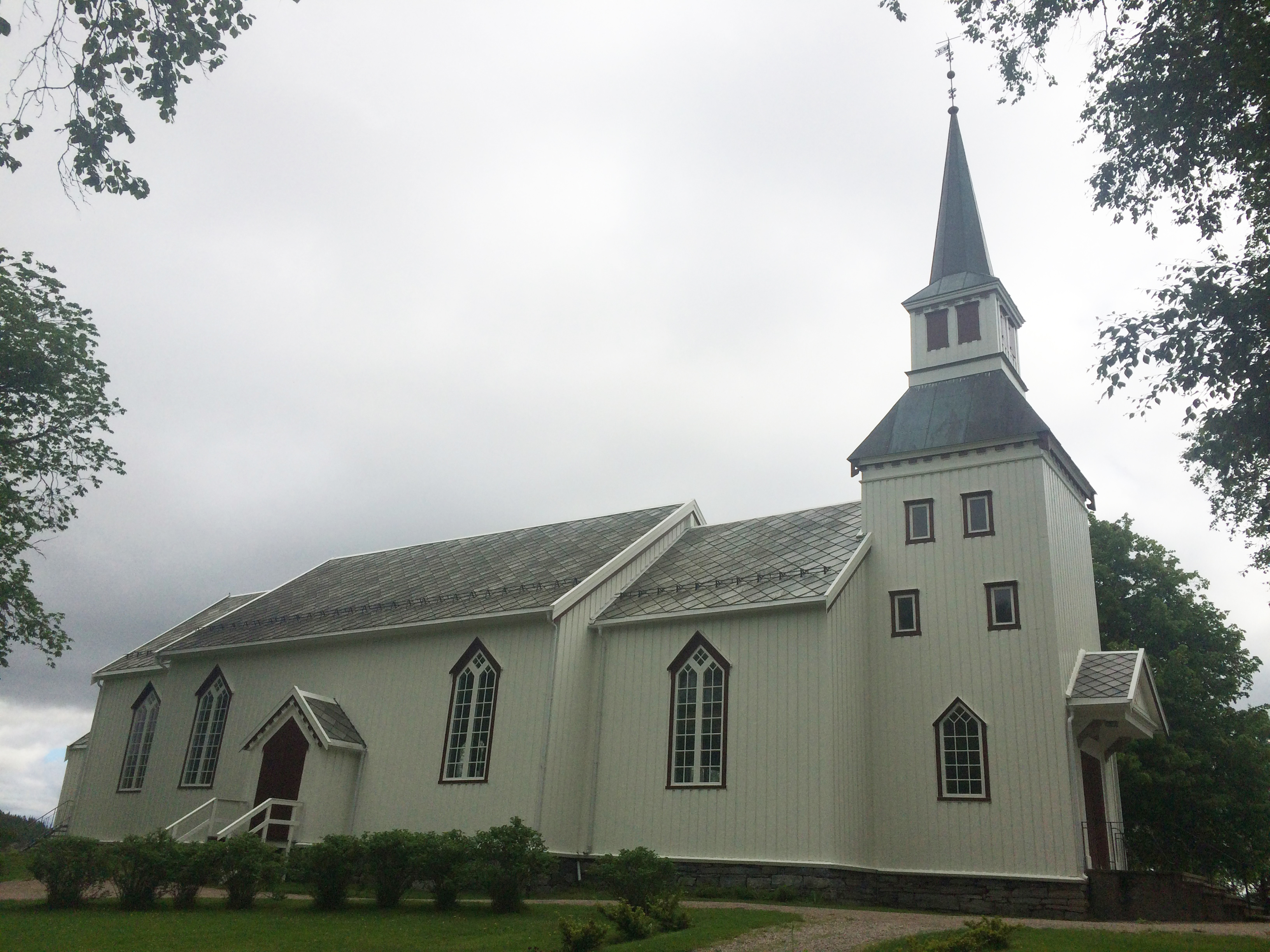 Namdalseid church, Nord-Trøndelag county, Norway. Erected 1858. Architect: Christian Heinrich Grosch